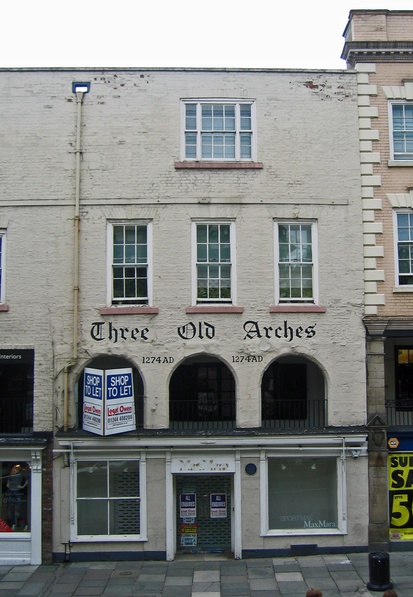 Photograph of the Three Old Arches, Bridge Street, Chester, Cheshire, England